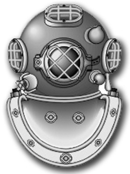 US Navy Navy Diver (ND). A U.S. Navy Mark-V diving helmet and breastplate.